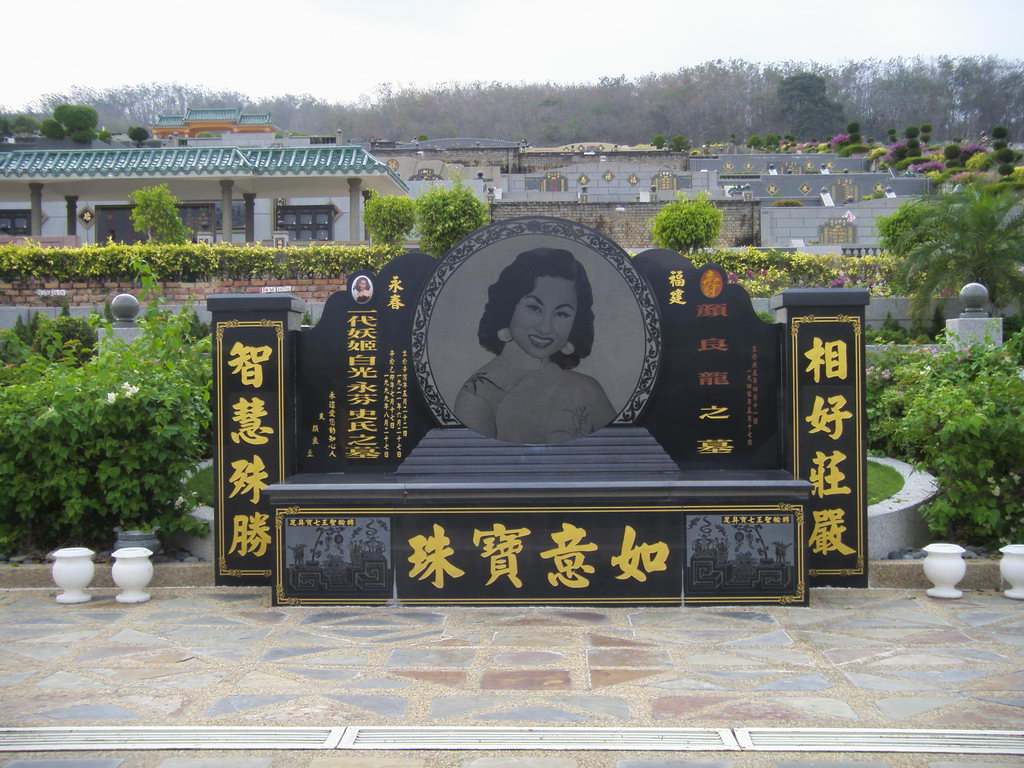 Bai Guang's tomb now rest in Semenyih, Malaysia. She was a famous movie star and singer in 1940s. Nivana Memorial Park, Semenyih, Malaysia.